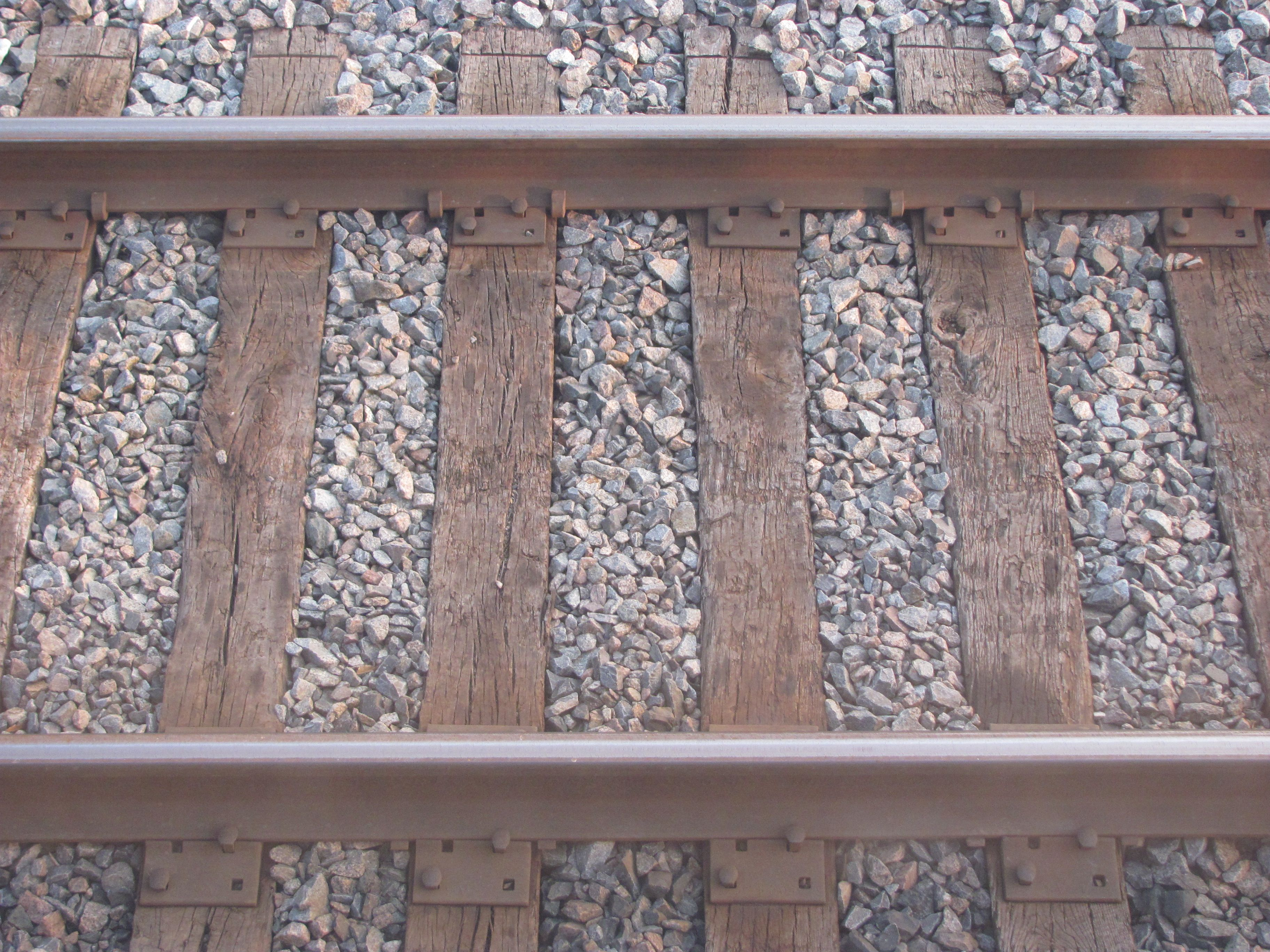 Nailed Track